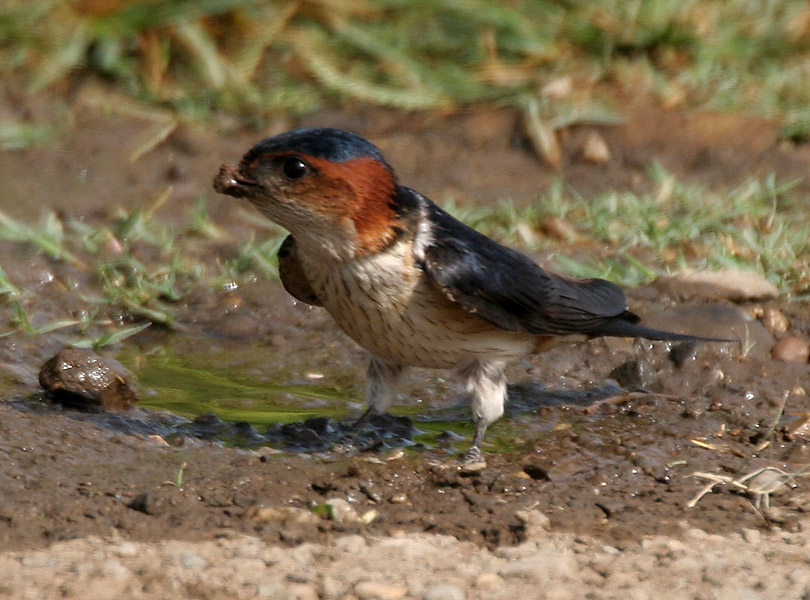 Red-rumped Swallow Cecropis daurica in Parli, Maharashtra, India.